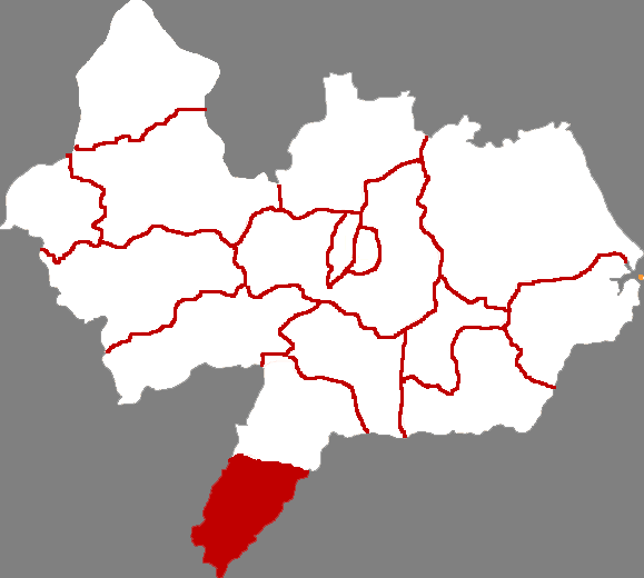 Location of Wuqiao county in Cangzhou City, China